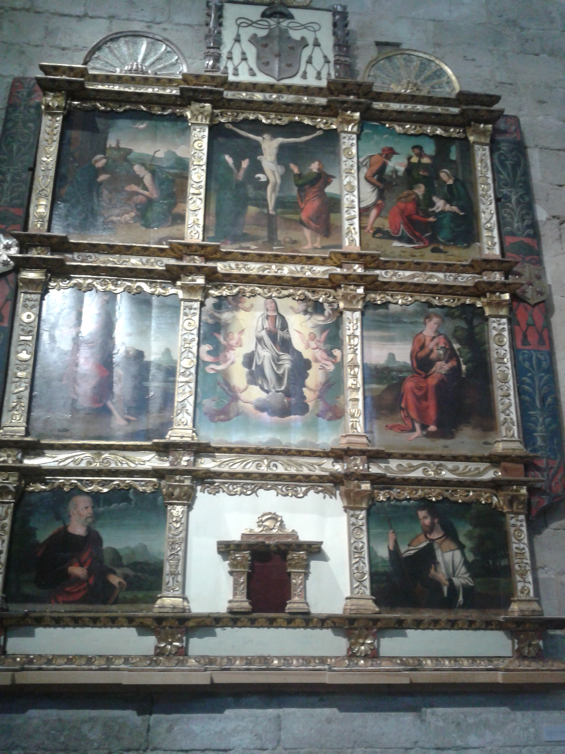 Frontal by Lorenzo de Ávila - Colegiata de Toro (Zamora)